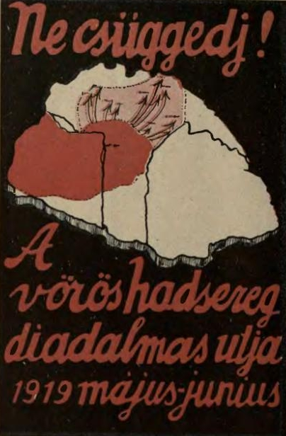 Propaganda poster showing the Hungarian Red Army offensive into Slovakia, 1919:'Fear not! The triumphal thrust of the Red Army in May-June 1919'